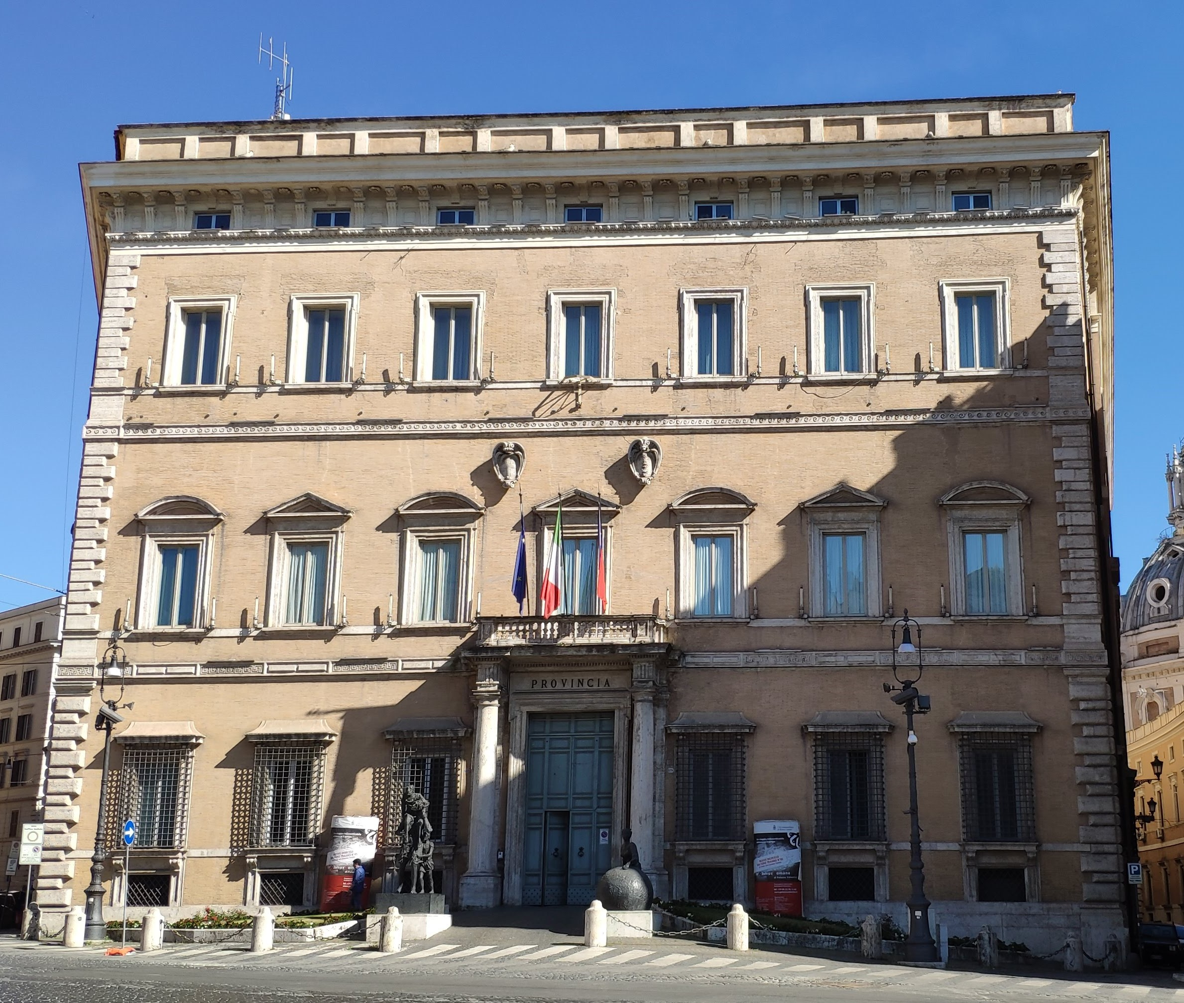 Palazzo Valentini, HQ of Città metropolitana di Roma Capitale in via IV Novembre